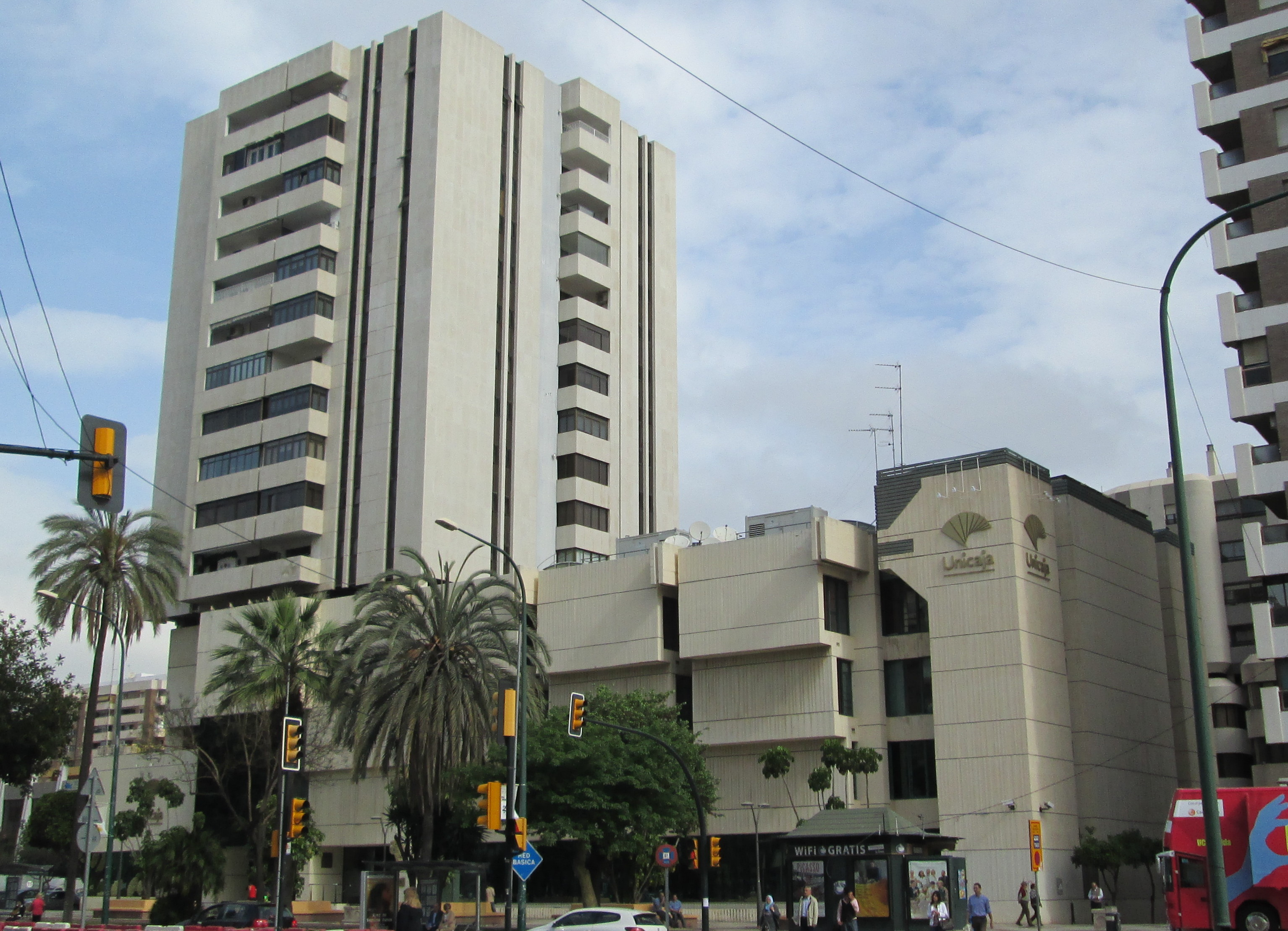 Edificio Unicaja, Málaga. Antonio J. Valero Navarrete, 1977-78